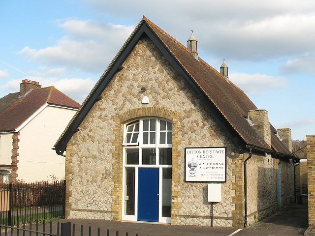 Ditton Heritage Centre, New Road The centre is housed in the old schoolroom, adjacent to the present primary school.